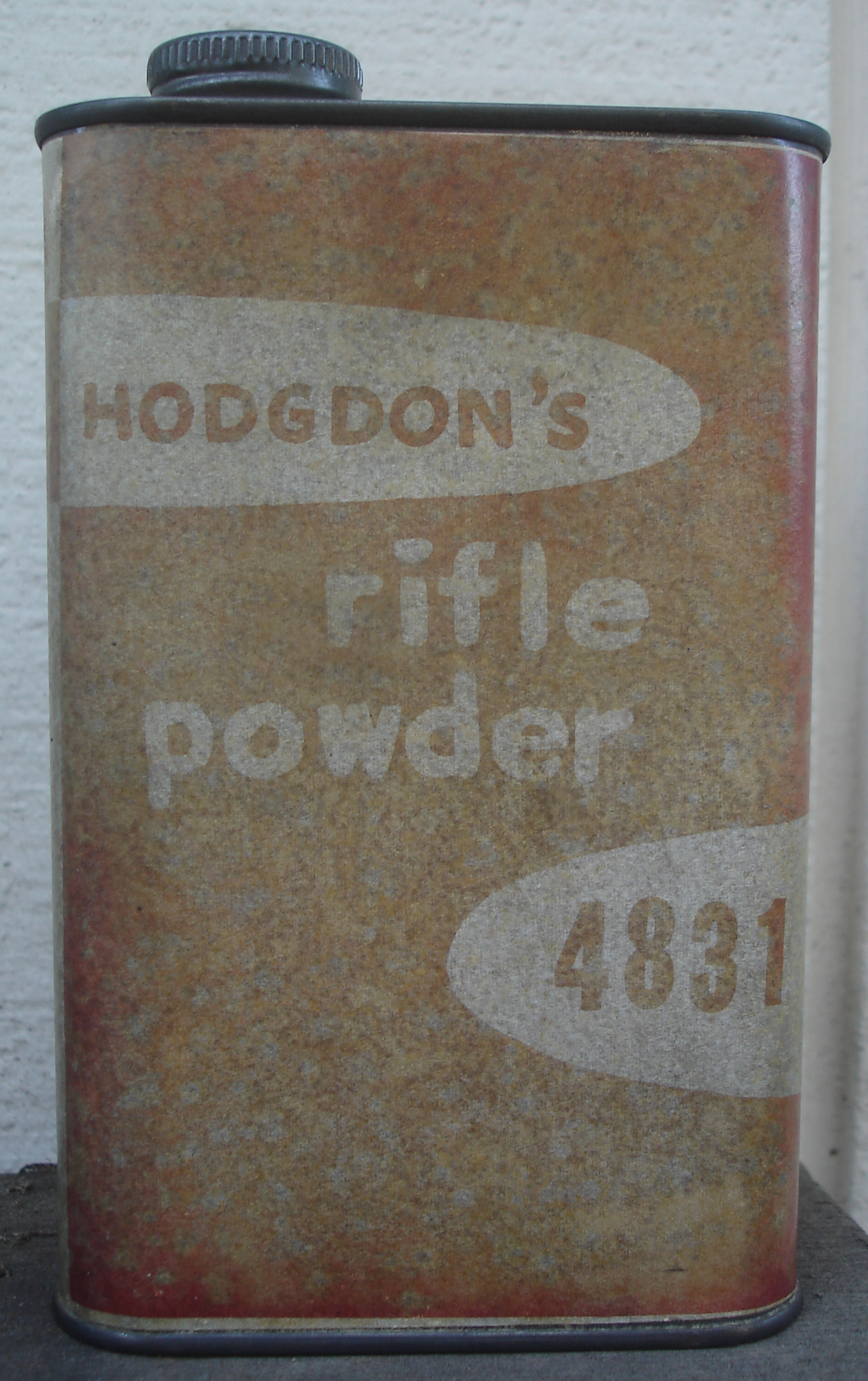 One-pound canister of 4831 smokeless rifle propellant packaged for retail distribution about 1960.